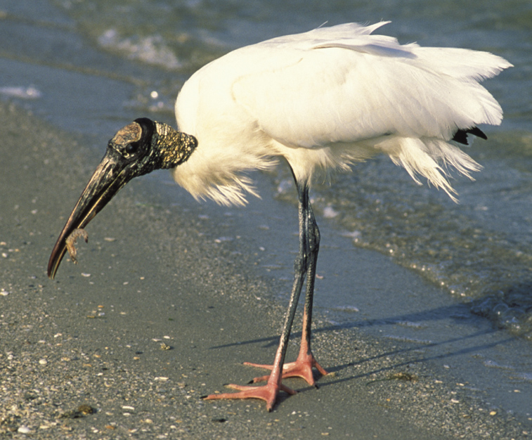 A Wood Stork (Mycteria americana) feeds on the shore. Cropped from U.S. Fish and Wildlife Service Digital Library System Creator: Ryan Hagerty DescriptionAmerican photographer and videographerwith the United States Fish and Wildlife ServiceWork periodafter 1996 date QS:P,+1996-00-00T00:00:00Z/7,P1319,+1996-00-00T00:00:00Z/9Work location United States of AmericaAuthority control : Q28112513 creator QS:P170,Q28112513 Source: WV-Pelican Island-11623 Publisher: U.S. Fish and Wildlife Refuge Contributor: NATIONAL CONSERVATION TRAINING CENTER-PUBLICATIONS AND TRAINING MATERIALS Subject: Bird, wading, Pelican Island NWR, Florida, endangered species Abstract: Endangered wood stork feeds on the shore at Pelican Island National Wildlife Refuge, Florida. Available: March 08 2003 Issued: March 08 2003 Modified: May 10 2004